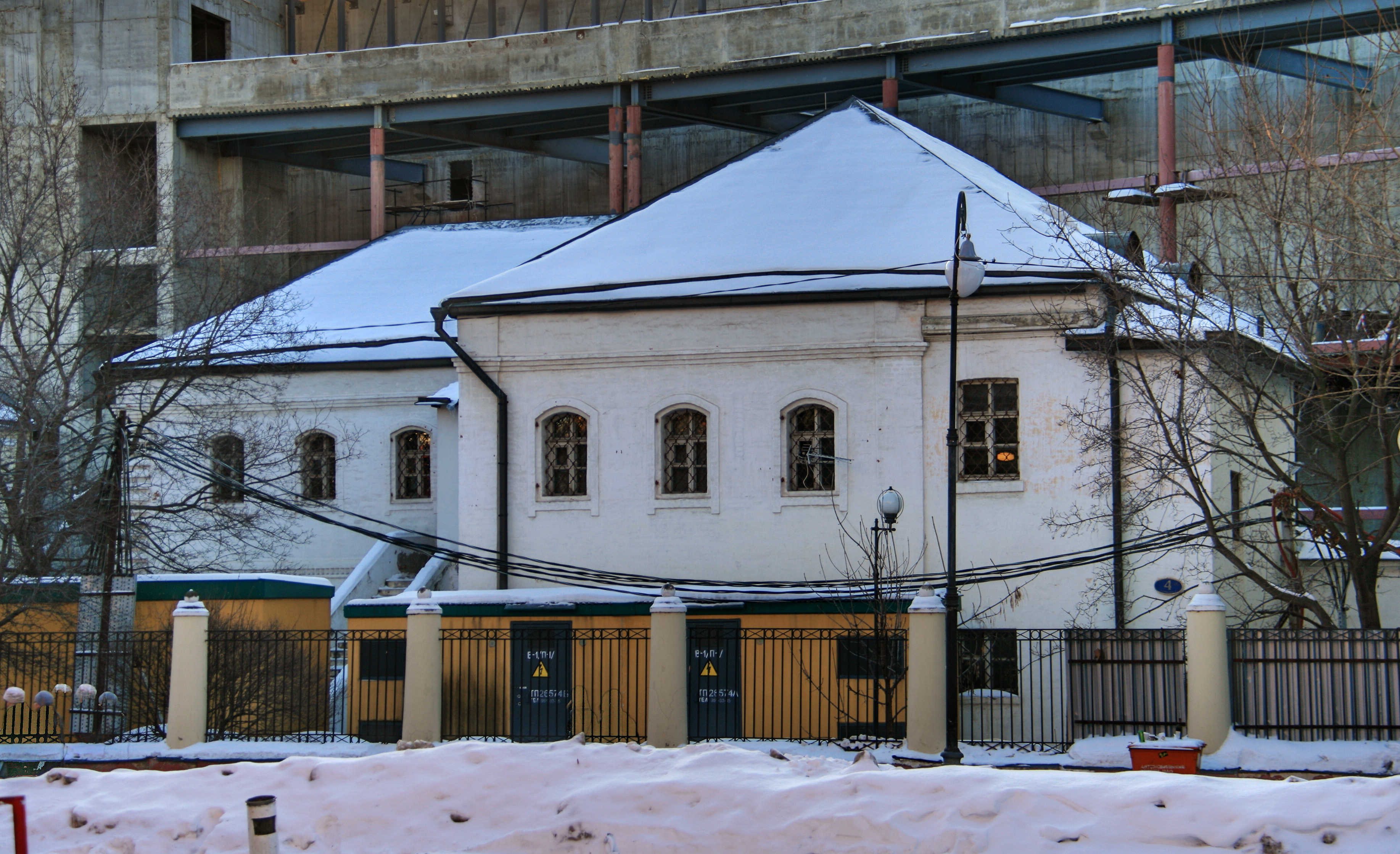 Lavrushinsky Lane 4 str.4, Moscow